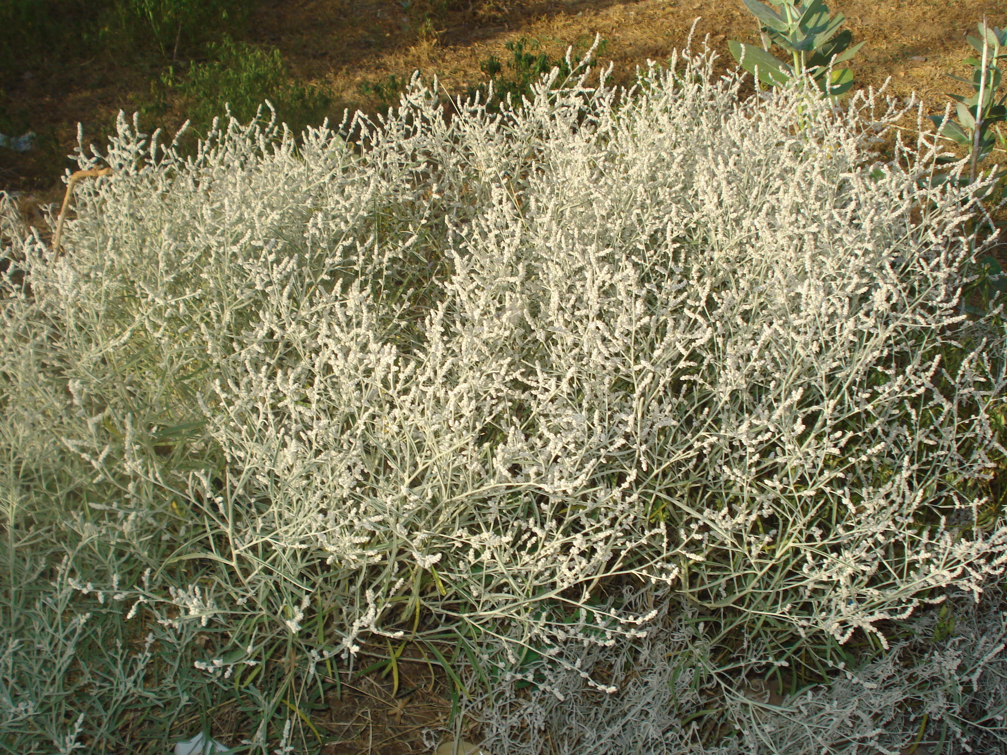 Aerva javanica (Syn. Aerva tomentosa) (Bui) herbal plant found in Thar desert